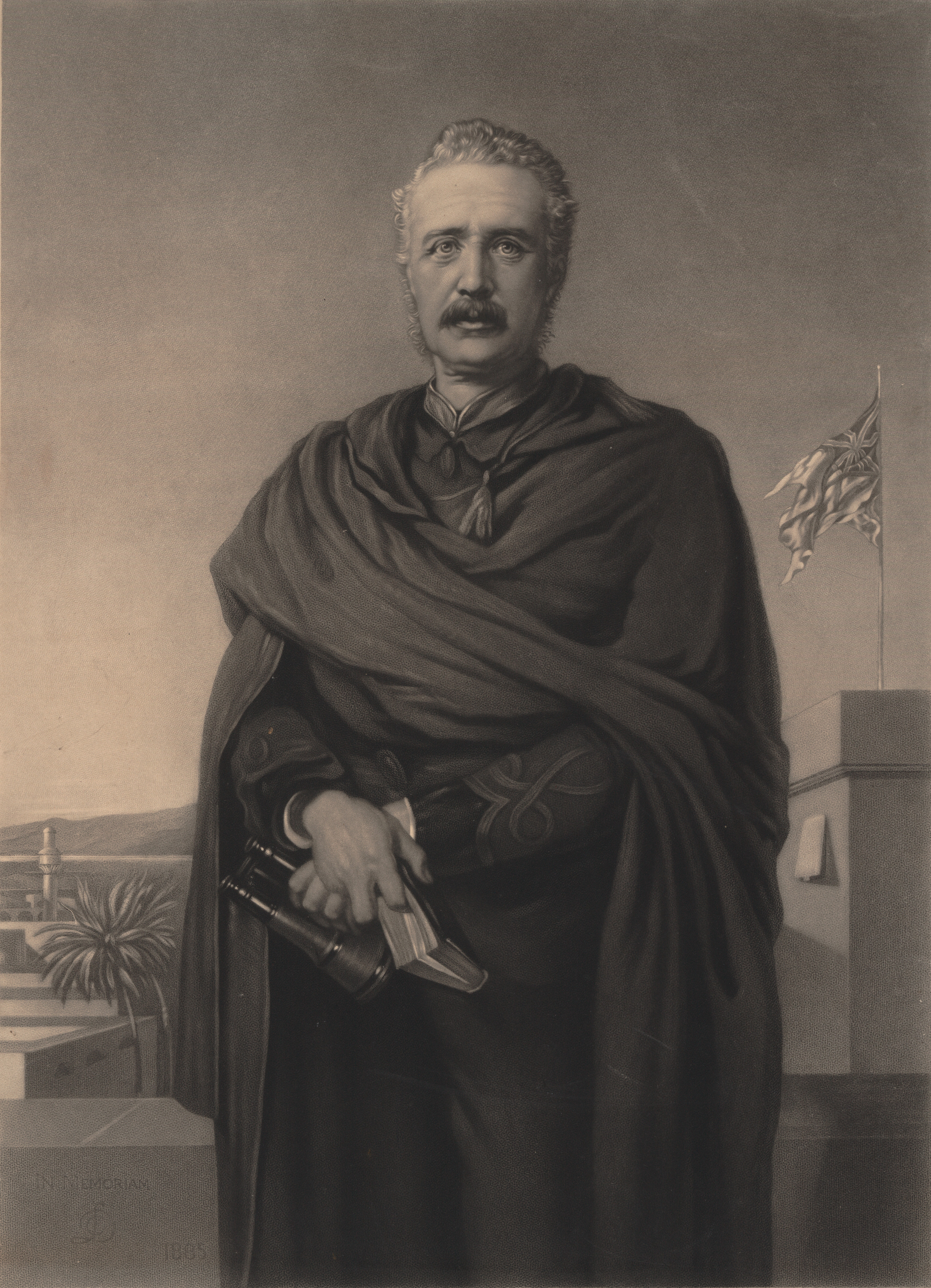 General C. G. Gordon in uniform and cape on a rooftop in Khartoum, holding a book and binoculars.